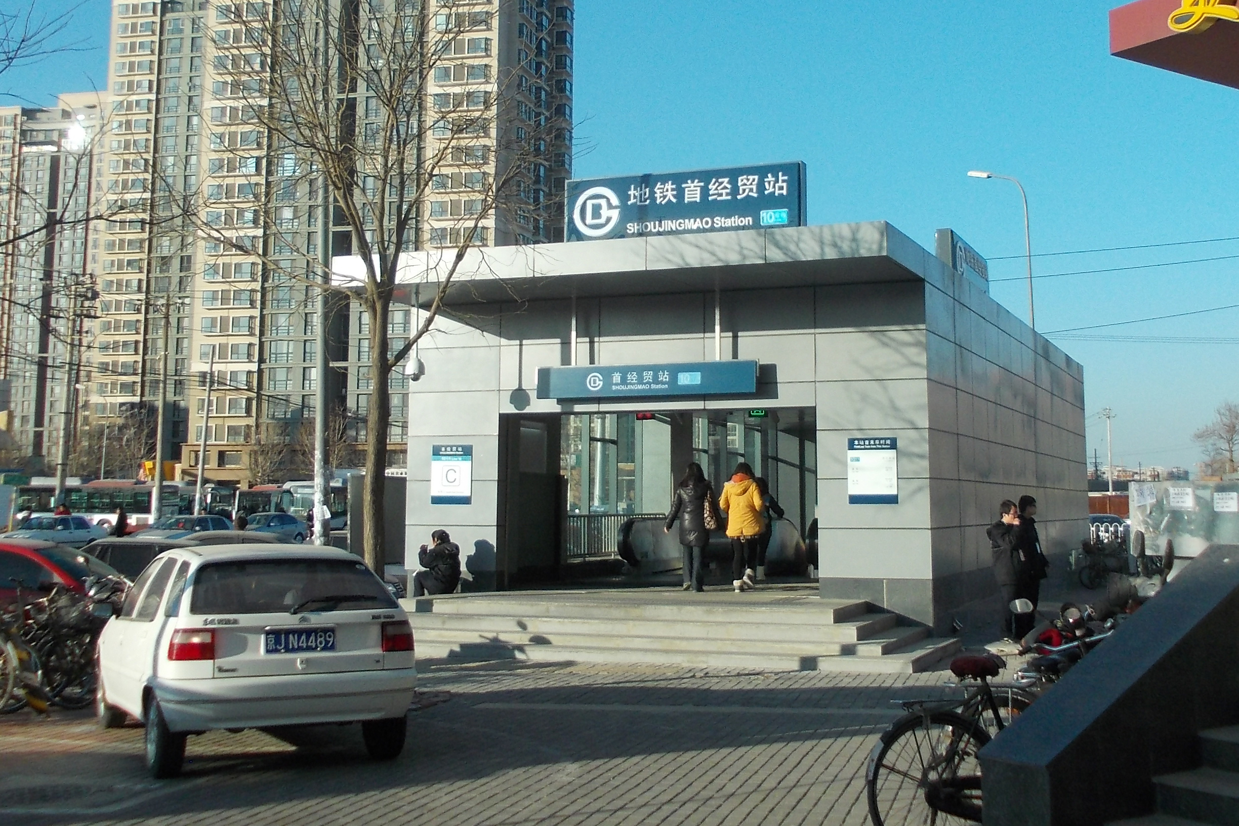 cutted out the main part from File:Beijing_Subway_-_Line_10_-_Shoujingmao_Station_-_Exit_C.JPG